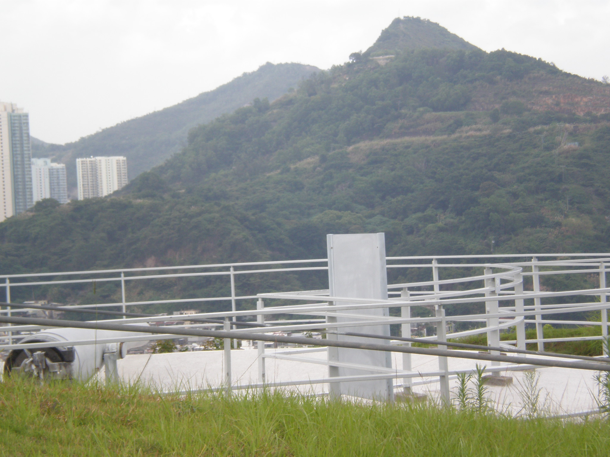 The view commanded by one of two 6 inch BL (breech loading) disappearing guns (lower left) emplaced at Lei Yue Mun Fort. The fort now forms a large part of the Hong Kong Museum of Coastal Defence.